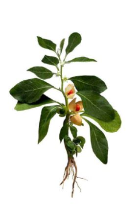 Withania